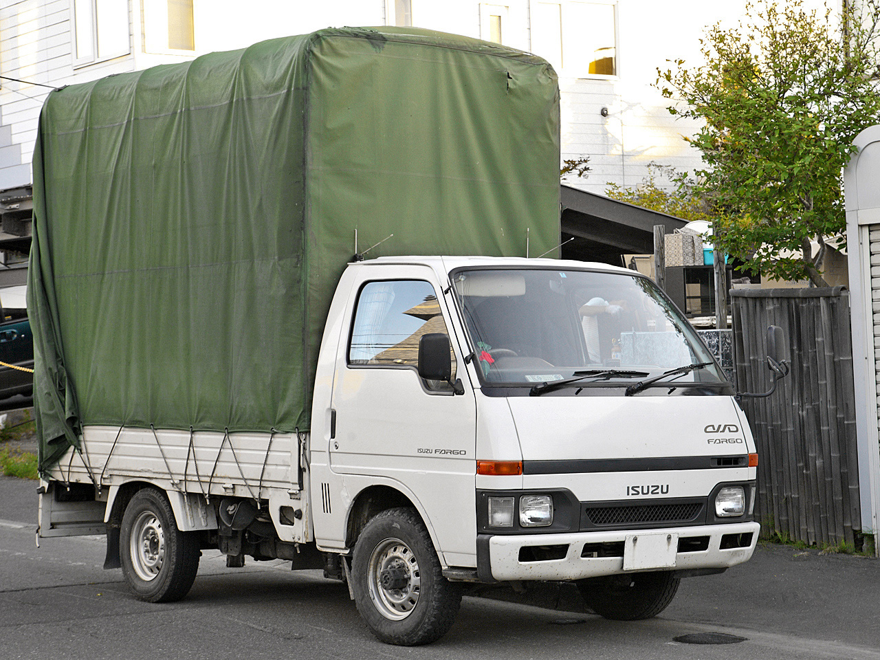 Isuzu Fargo Truck 4WD